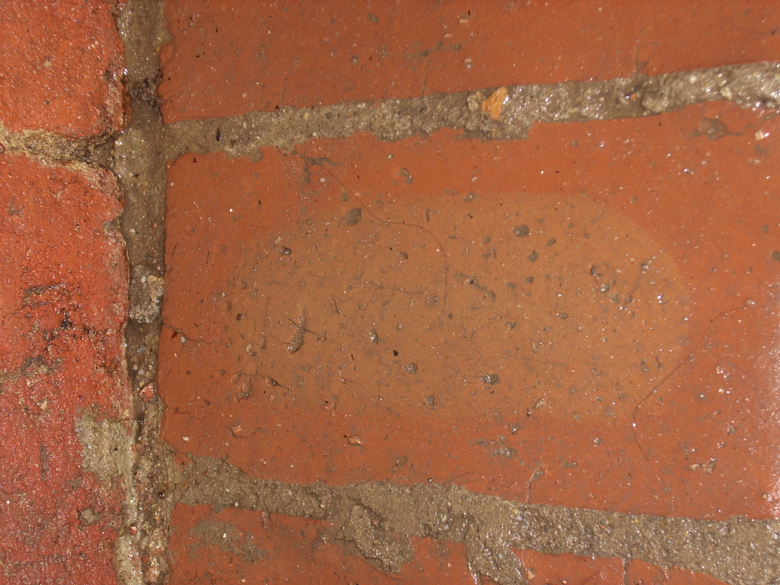 Detail of special brick in Jihlava´s underground